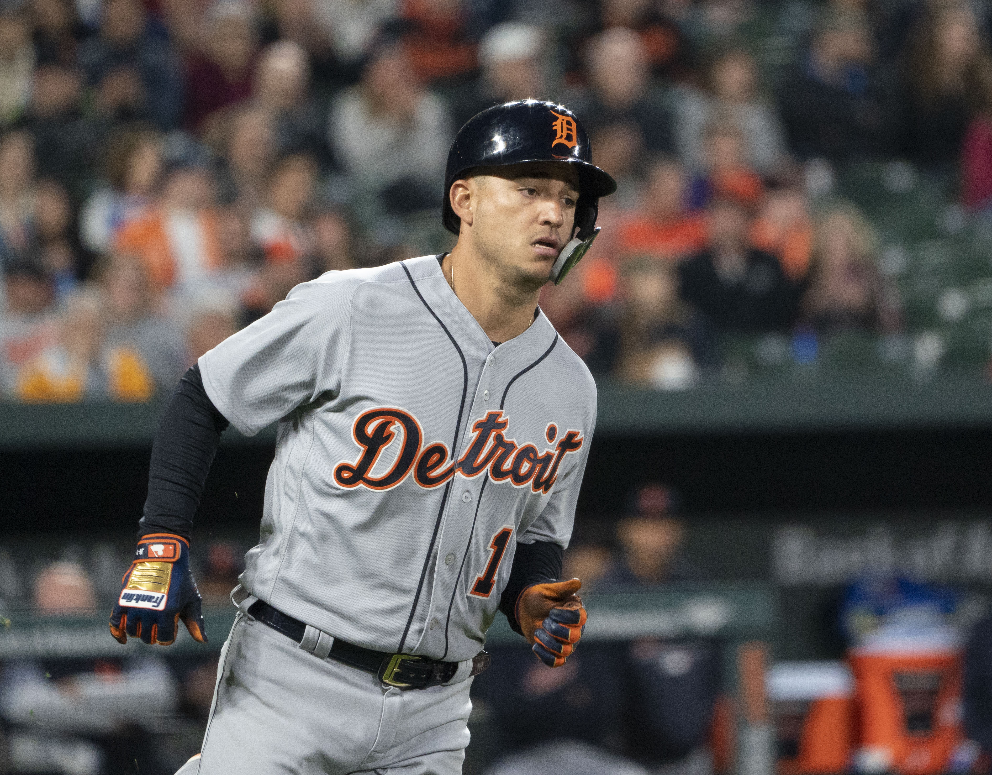 Detroit Tigers shortstop José Iglesias on April 28, 2018.